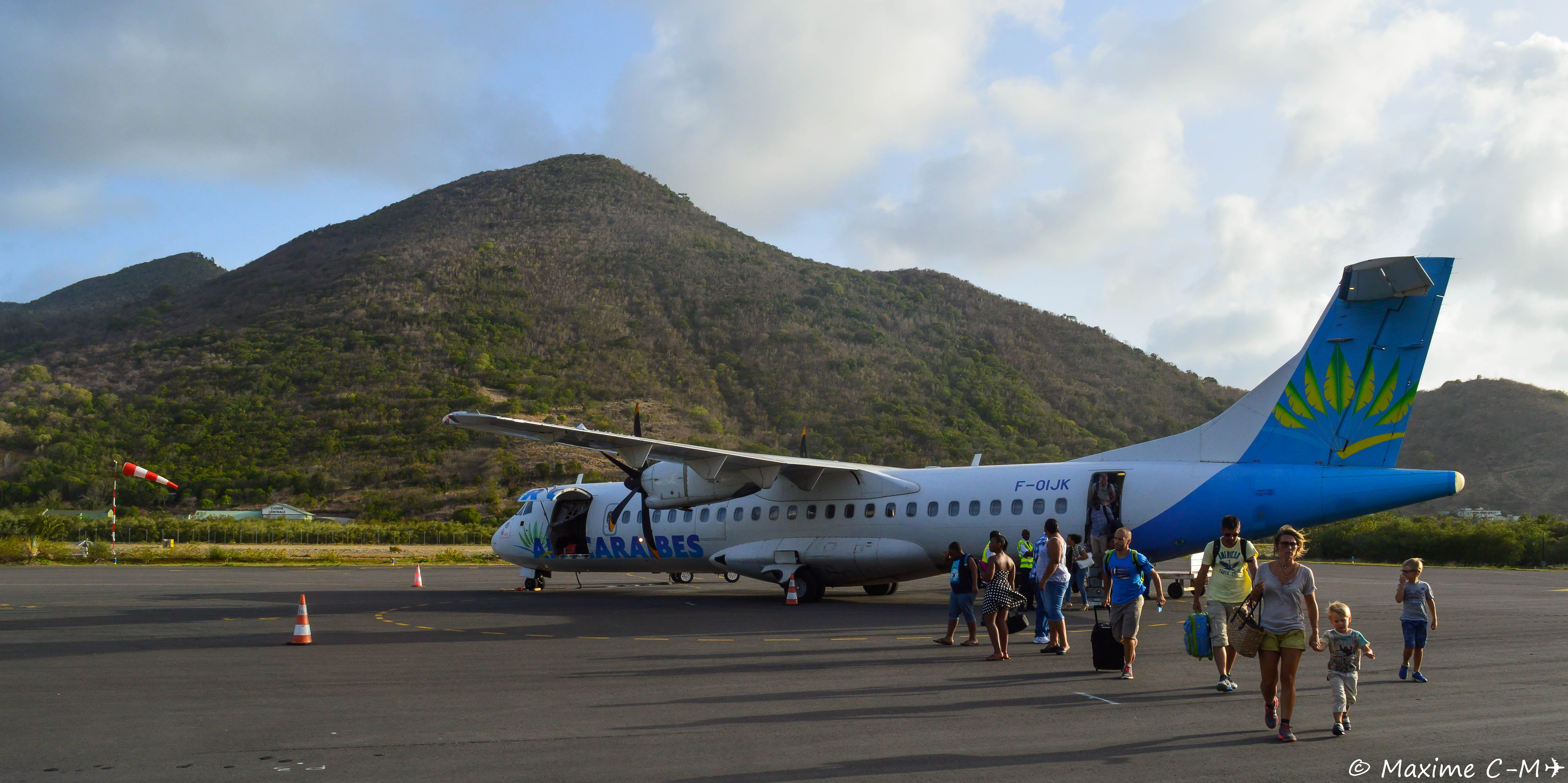 F-OIJK ATR72-500 Air Caraibes Saint-Martin Grand Case ( TFFG/SFG )